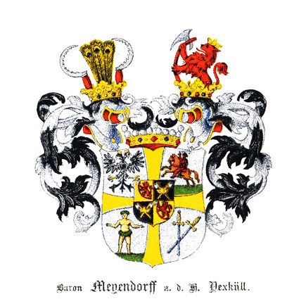 Coat of arms of Meyendorff family.